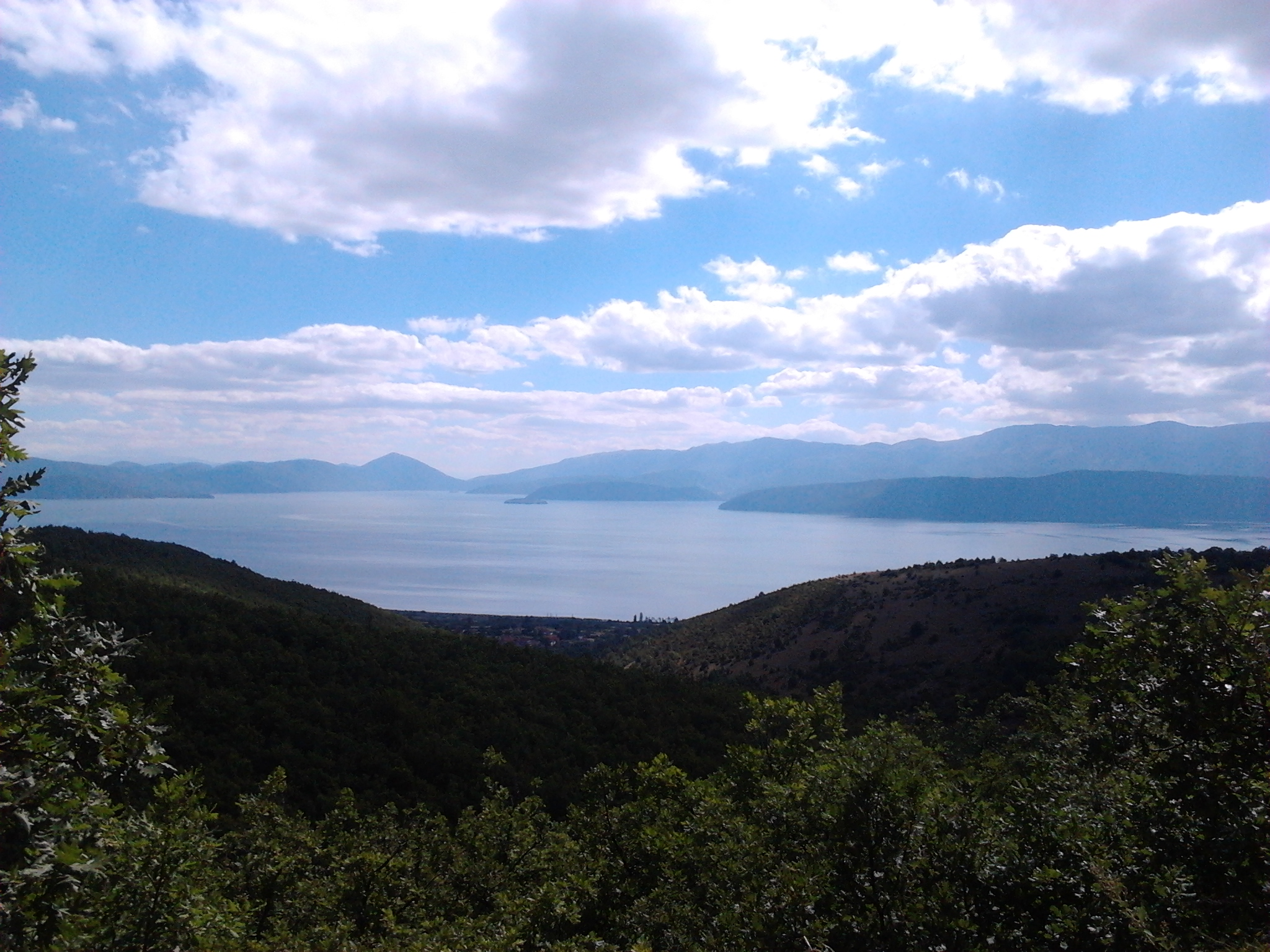 Prespa Lake, Macedonia